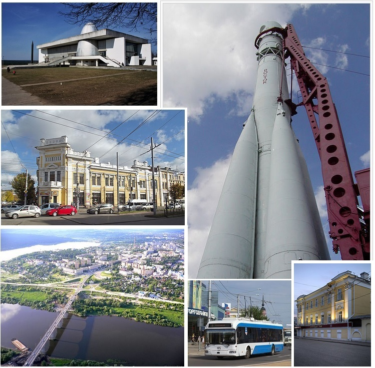 Kaluga-city (collage)